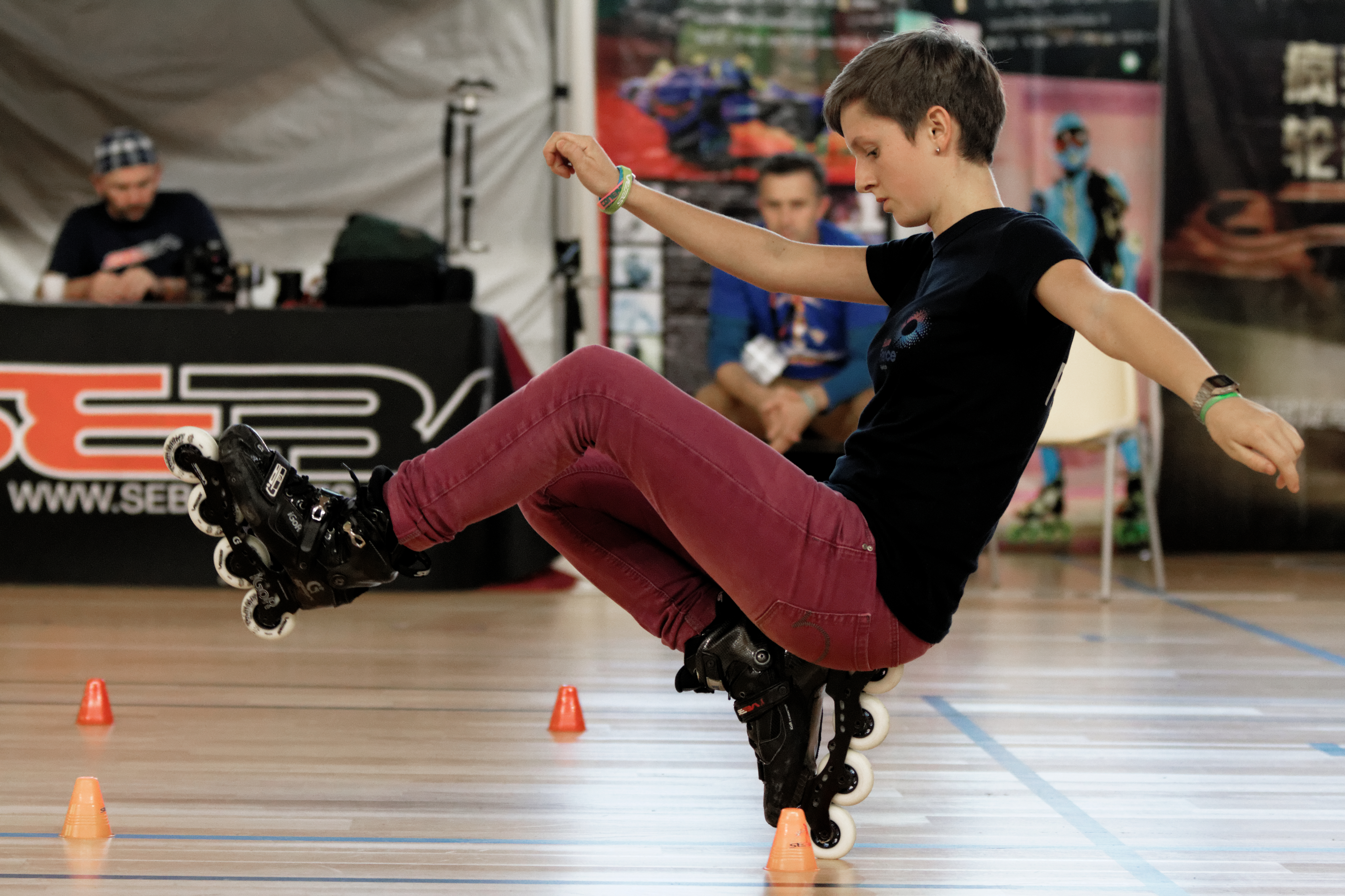 2014 World freestyle skating championships